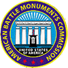 Logo of the American Battle Monuments Commission